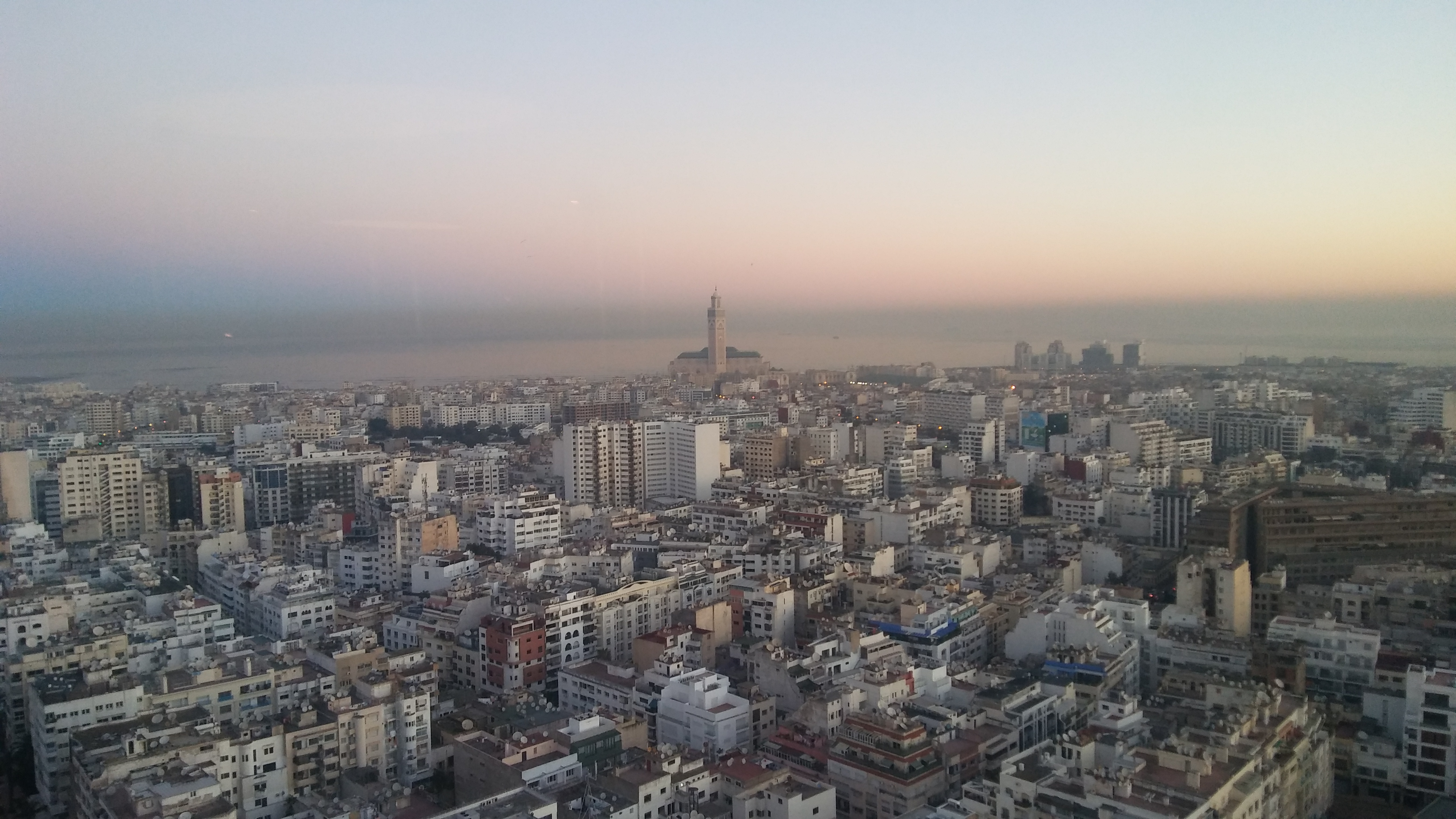 Sunrise in Casablanca with Hassan II Mosque in the background. The picture was taken by the Kenzi Tower Hotel in the Casablanca Twin Towers.